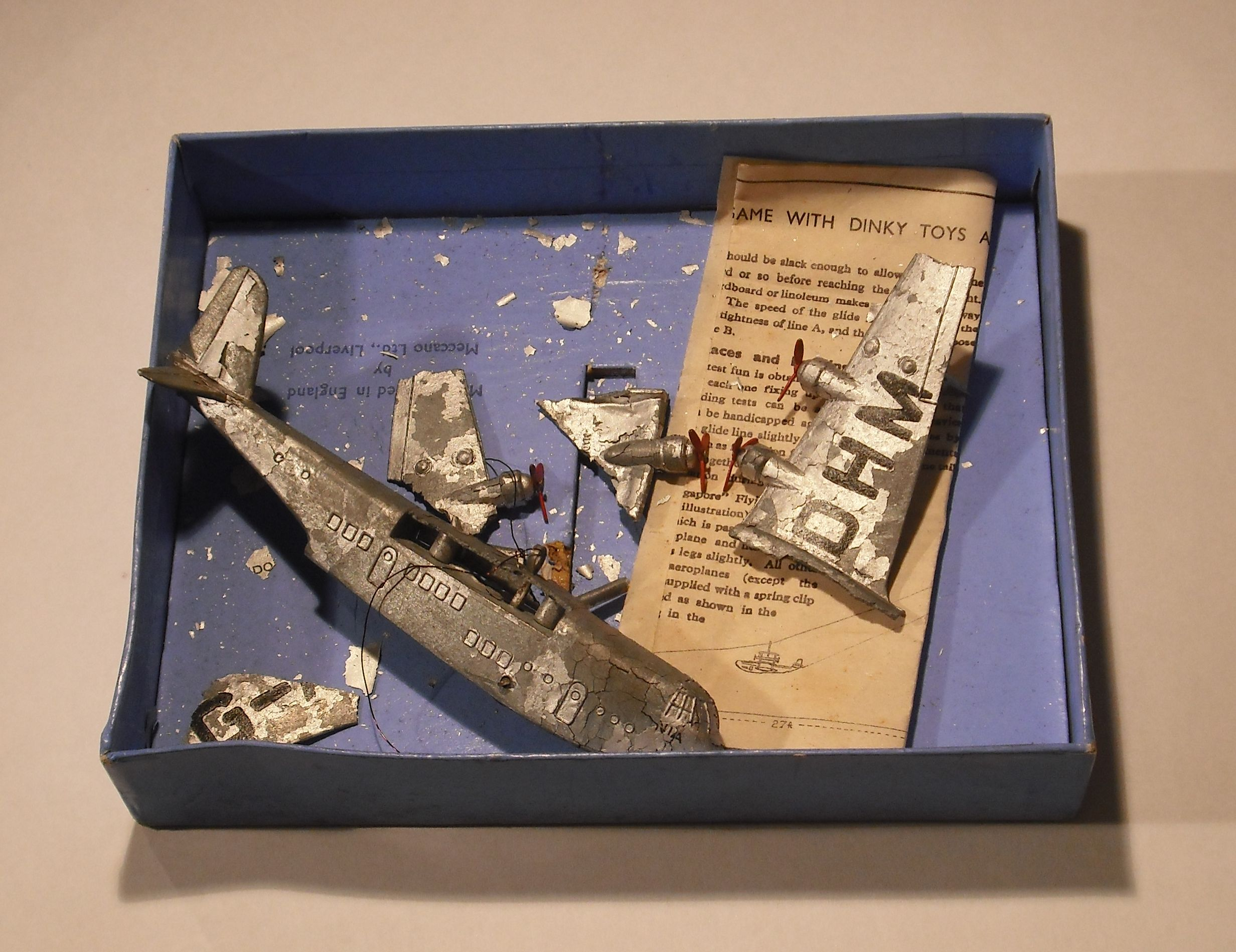 Dinky Toy model (or its remains) of the Short Empire flying boat, "Caledonia" G-ADHM. Extensive damage to the model is due to zinc pest, a particular problem with the Dinky aircraft of this age.